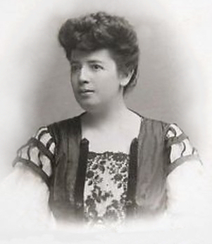 Vintage photograph of opera singer Amalia Carneri, Vienna, signed Amalie Carneri